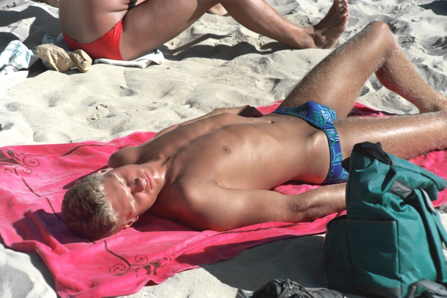 Scanned from the original 35MM film negative